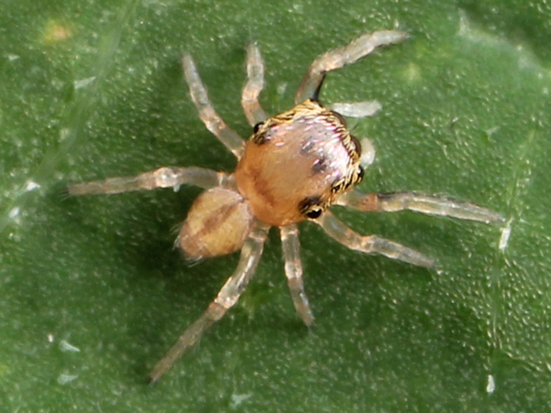 First instar Zygoballus sexpunctatus jumping spider. Total body length is approximately 1.3 mm.